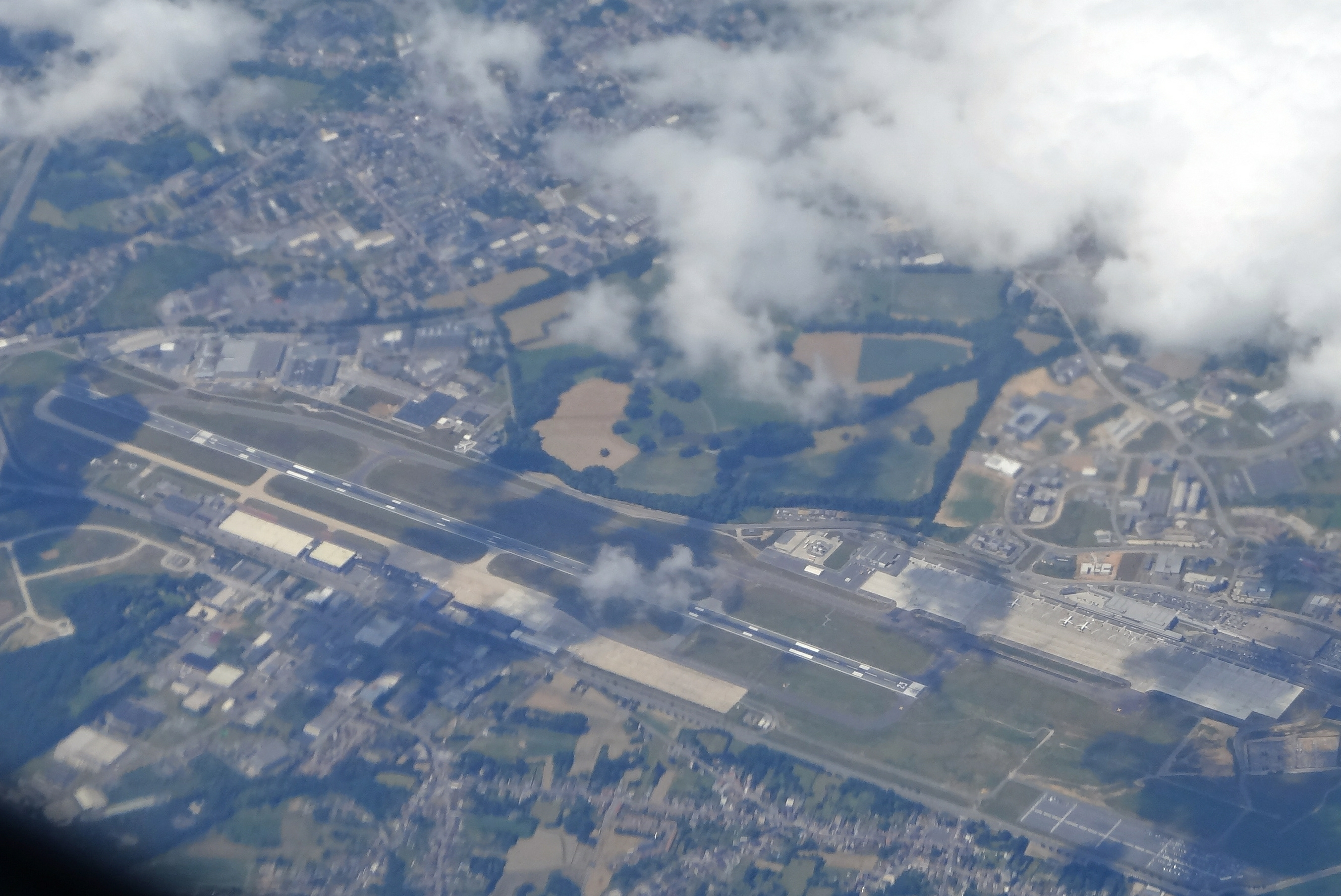 CRL AIRPORT FROM FLIGHT DUS-CDG A320 AIR FRANCE F-GFKY